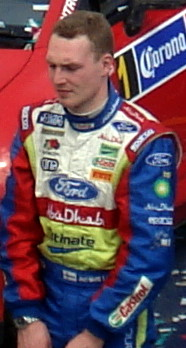 Finnish Rally Driver Jari-Matti Latvala.